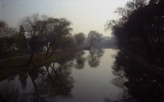 Riverside of Sūzhōu,in China